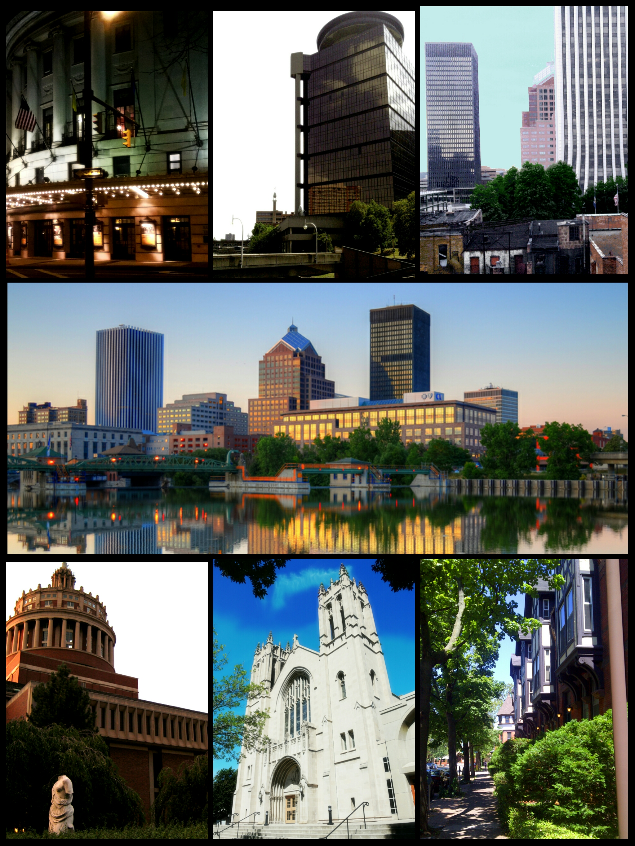 Top, from left: Eastman Theater in the East End, from File:EastmanTheater1.jpg by [1] First Federal Plaza building on Downtown Rochester's west side, from File:First Federal Plaza 1.jpg by [2] Several corporate high-rises, including the Xerox, Baush & Lomb and Chase towers (from left) from File:Chase 1.jpg by [3] A portion of the skyline on the east side of Downtown Rochester, from File:Downtown Rochester, NY HDR by patrickashley.jpg by [4] (user uploaded file from Flickr) Rush Rhees Library at the University of Rochester, from File:RushRhees.jpg by [5] Sacred Heart Cathedral on Rochester's northwest side, from File:SacredHeartCathedralRochesterNewYorkSouthView.JPG by DanielPenfield (User has no wikimedia page) Row houses in the city's Grove Place neighborhood, from File:2. Grove Place.jpg by [6]